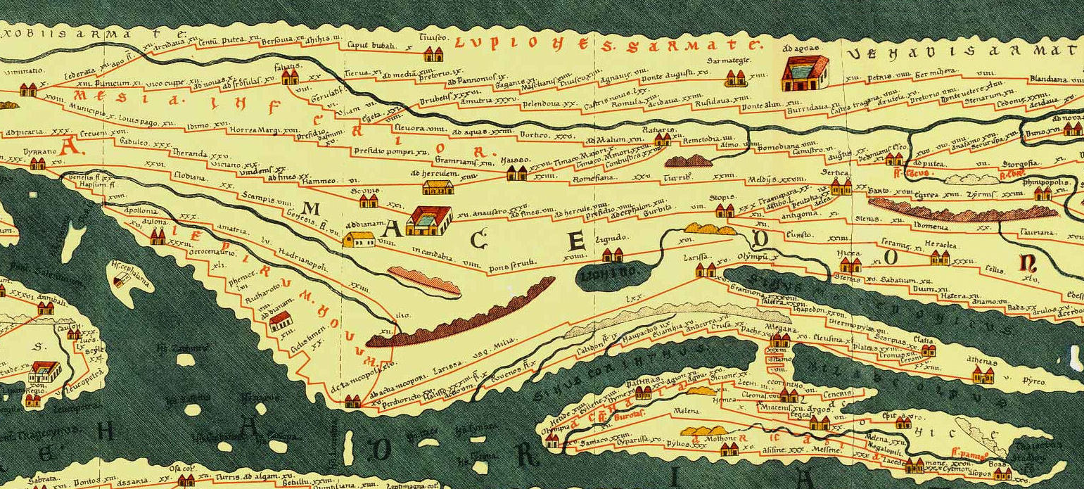 Part of Tabula Peutingeriana showing Western Moesia Inferior, Western Dacia and Macedonia, 1-4th century CE. Facsimile edition by Conradi Millieri, 1887/1888